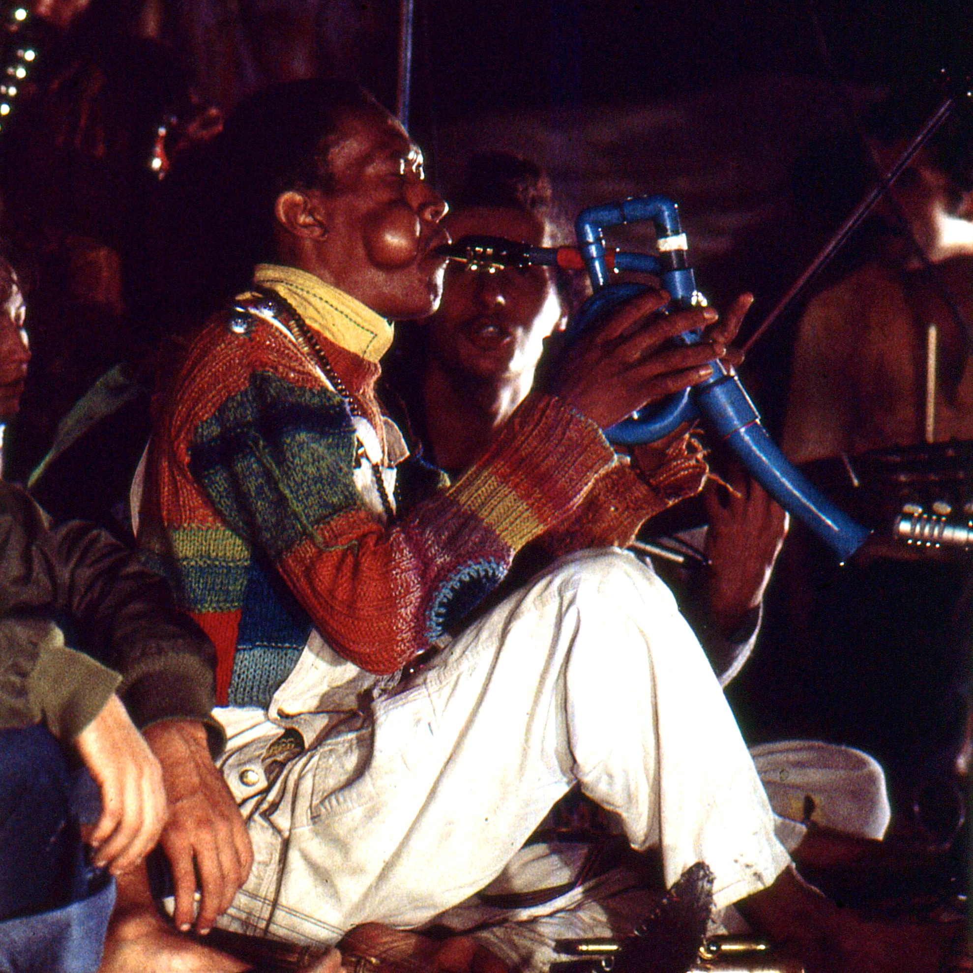 Jazz maestro Don Cherry playing a very particular "cornet" at Park Le Cascine, Firenze, Italy, September 1975 (Festival Nazionale dell'Unità)